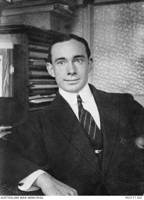 Informal portrait of George Hubert Wilkins